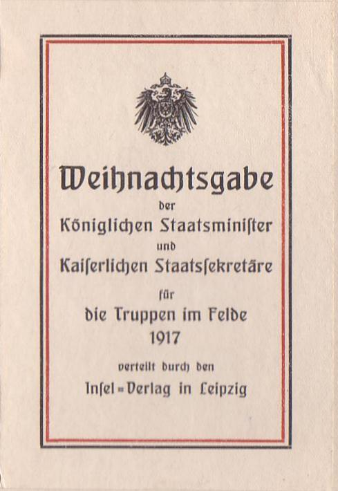 Paper sticker in IB 25 (Christmas gift in WW I)